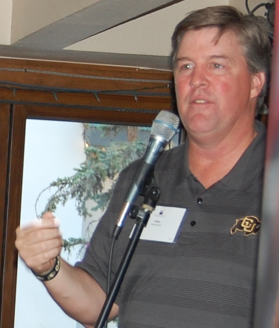 University of Colorado football coach Mike MacIntyre speaks at an alumni event in June 2013.